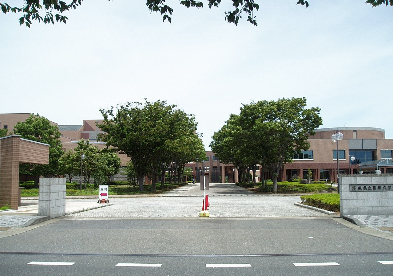 The main entrance to Ibaraki Prefectural University of Health Sciences located in Ami, Ibaraki, Japan.